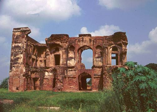 Ruins of Daulat Khana-E-Khas at Aam Khas Bagh, built by Shah Jahan